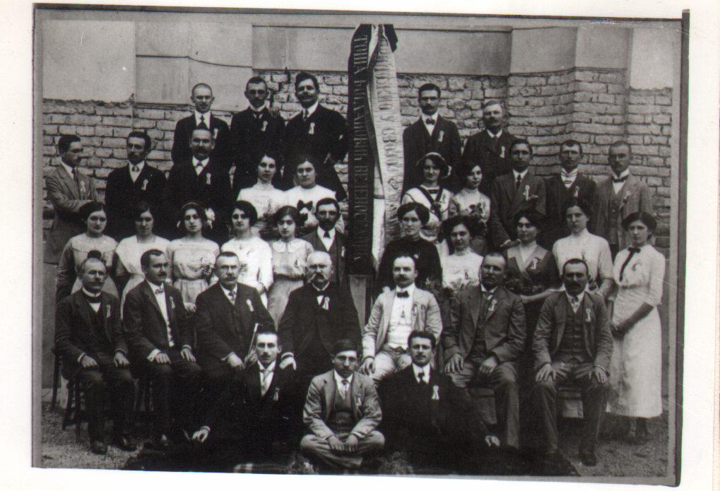 Serbian singing society from Ruma, Serbia (1912)